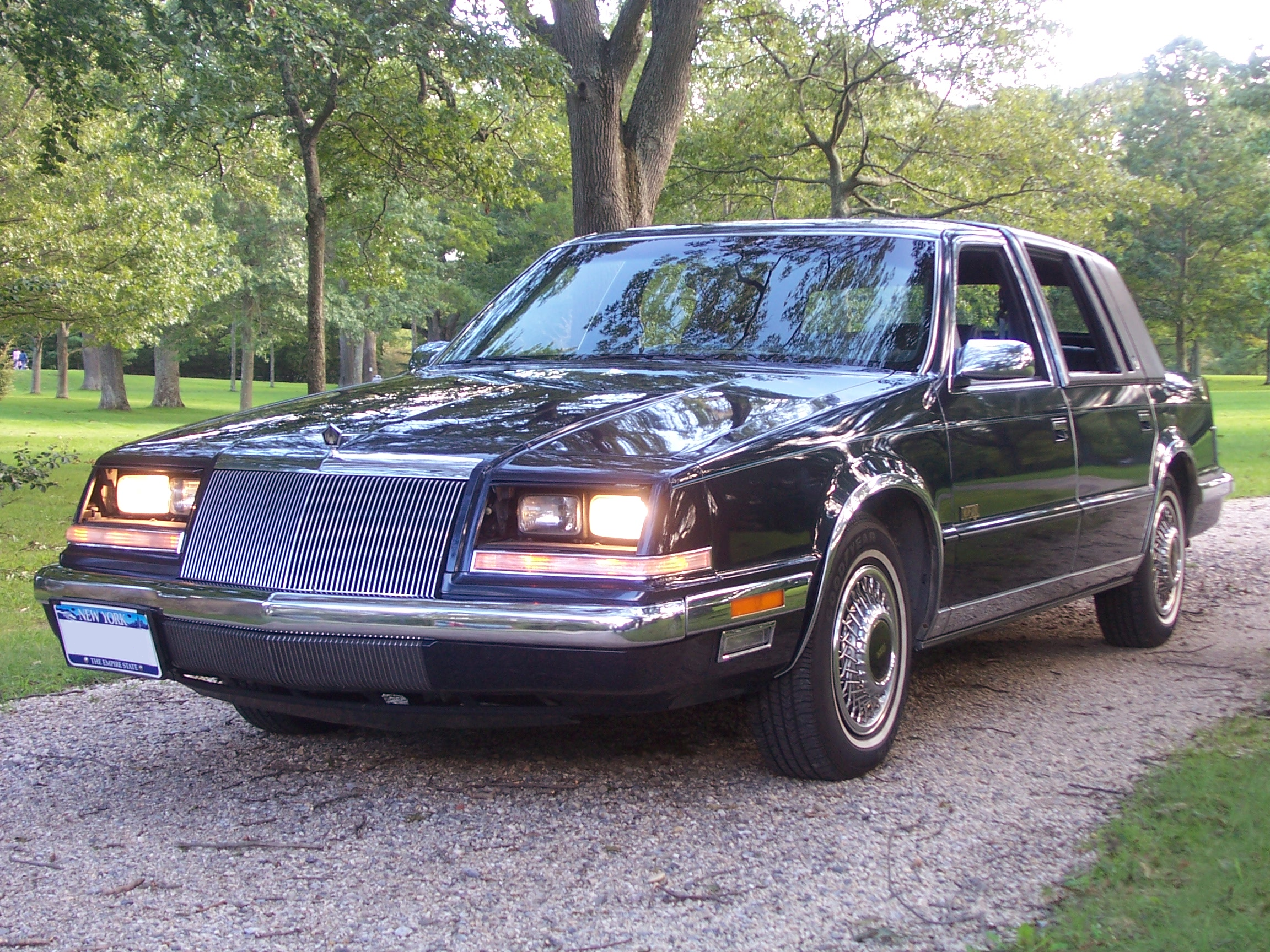 Midnight Blue 1992 Chrysler Imperial (concealed headlights on/open)